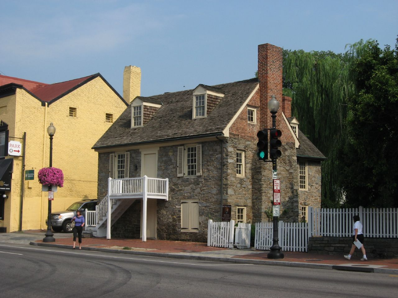 The Old Stone House located at 3051 M Street, NW in the Georgetown neighborhood of Washington, D.C. Built in 1765, the Old Stone House is the city's oldest building on its original foundation. It's listed on the National Register of Historic Places and is a contributing property to the Georgetown Historic District. The back yard has been turned into an English garden and the home now operates as a museum.